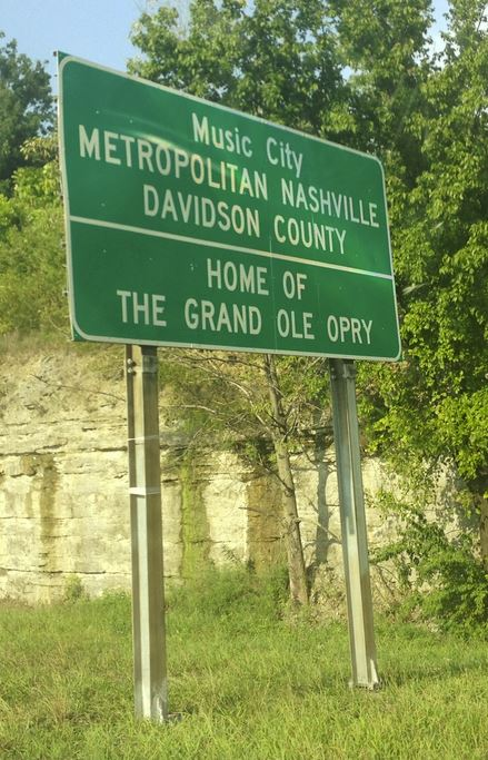 Road sign displayed at the Davidson County (Tennessee) line on all major roadways